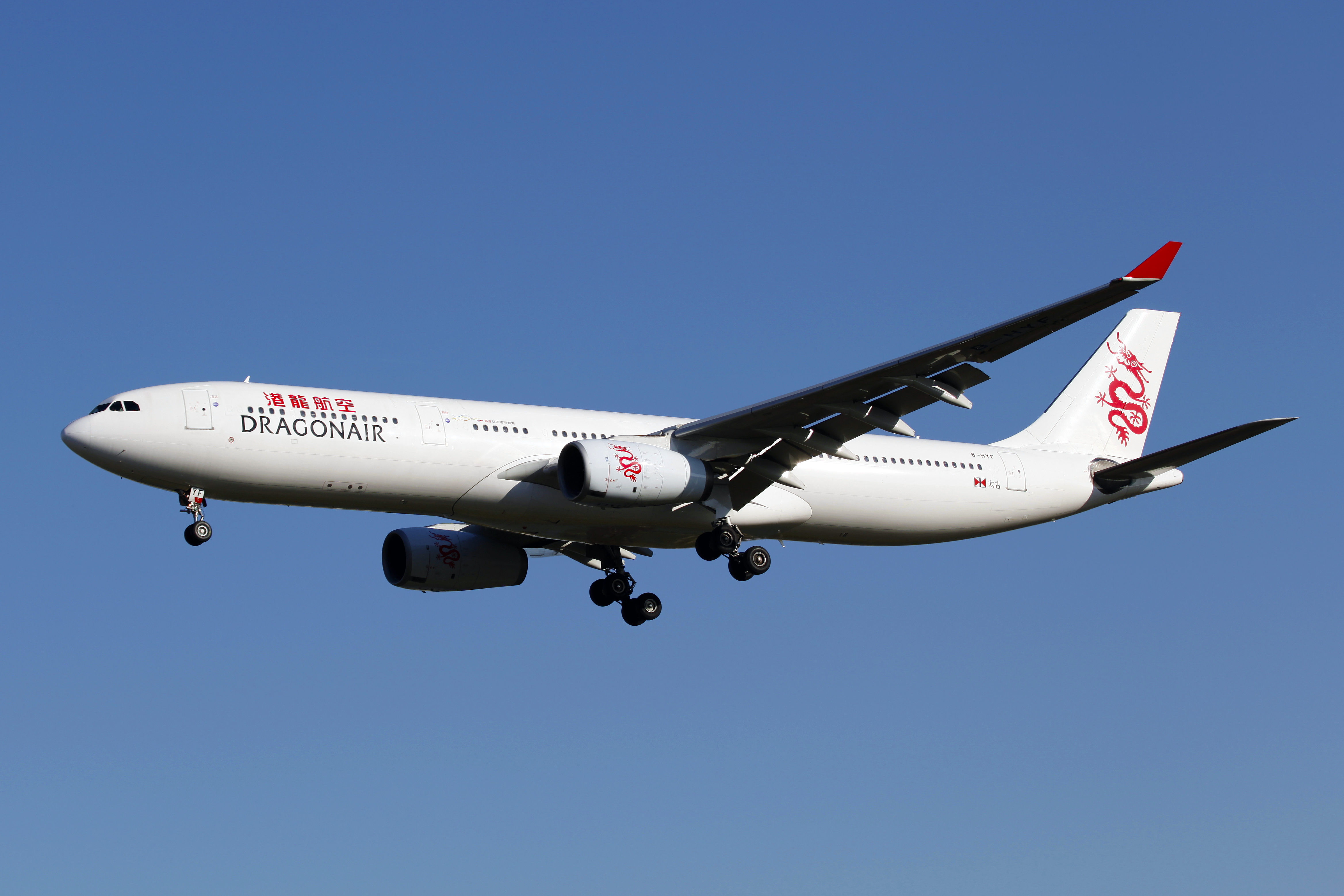 B-HYF | Dragonair | Airbus A330-342 | Beijing Capital International Airport [PEK]